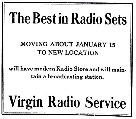 In January 1924 the the Virgin Radio Service company, along with its radio station, KFAY, moved to "the Springer-Lee location on West Main Street" in Medford, Oregon.